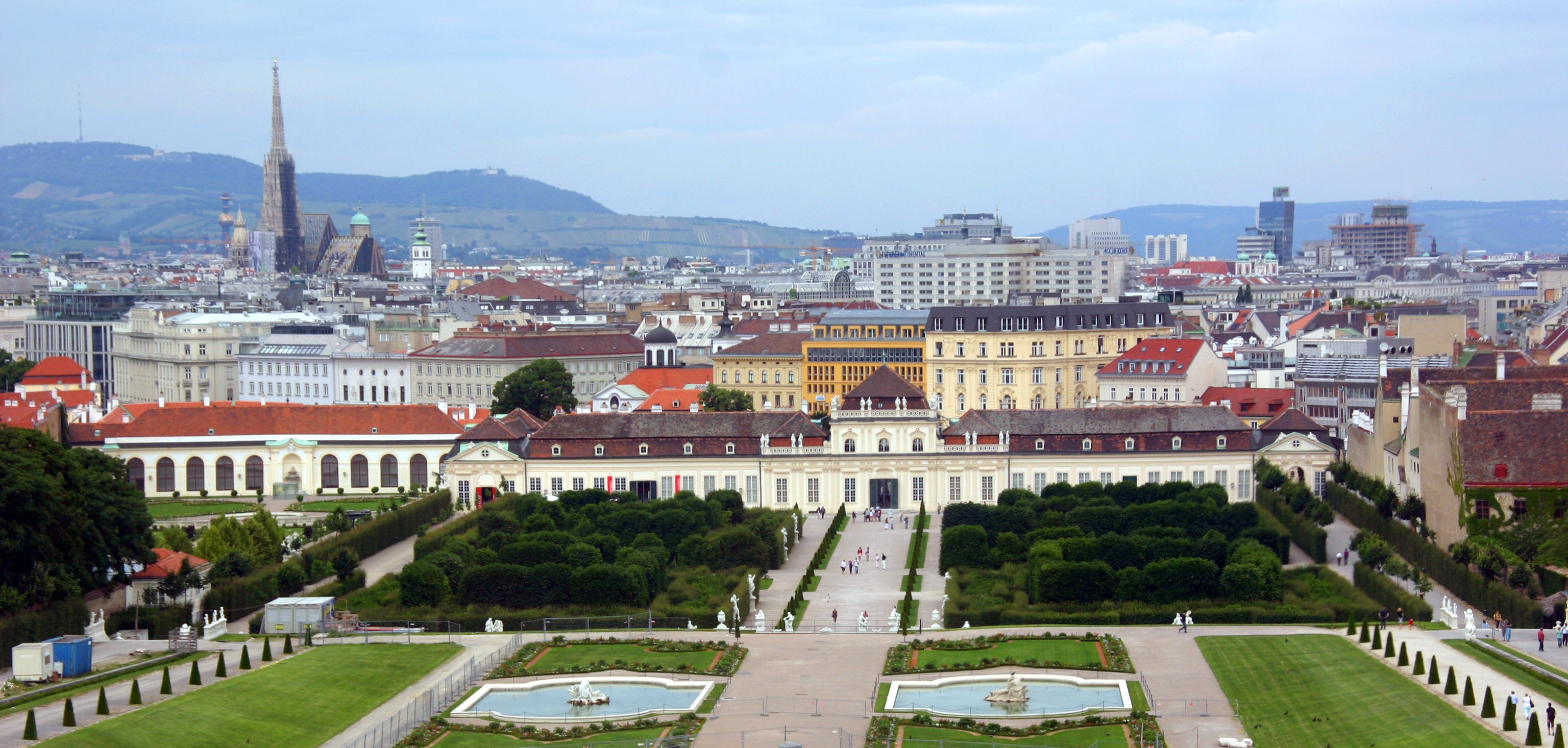 View of Vienna from Upper Belvedere